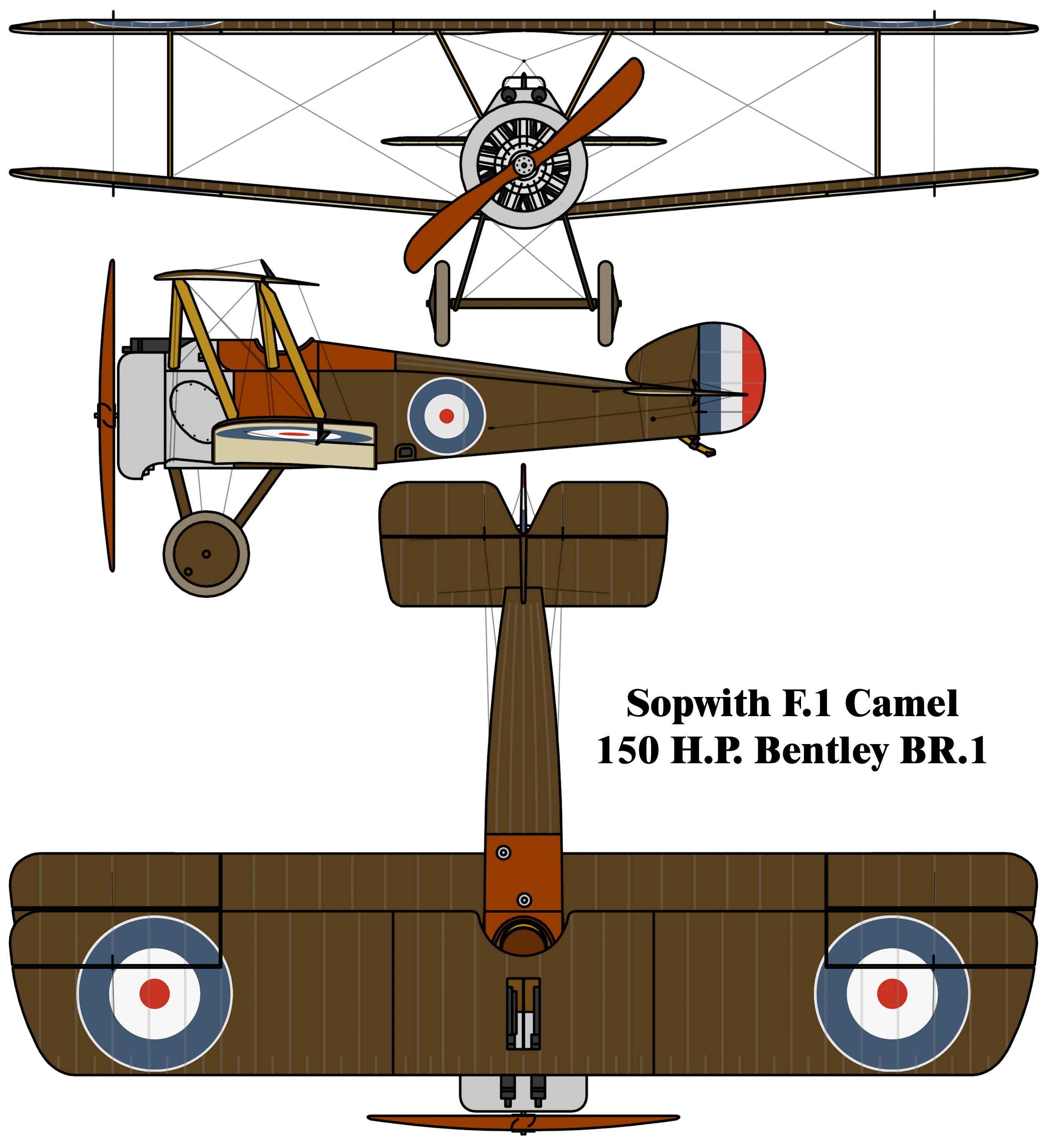 Sopwith F.1 Camel British First World War single seat biplane fighter drawing